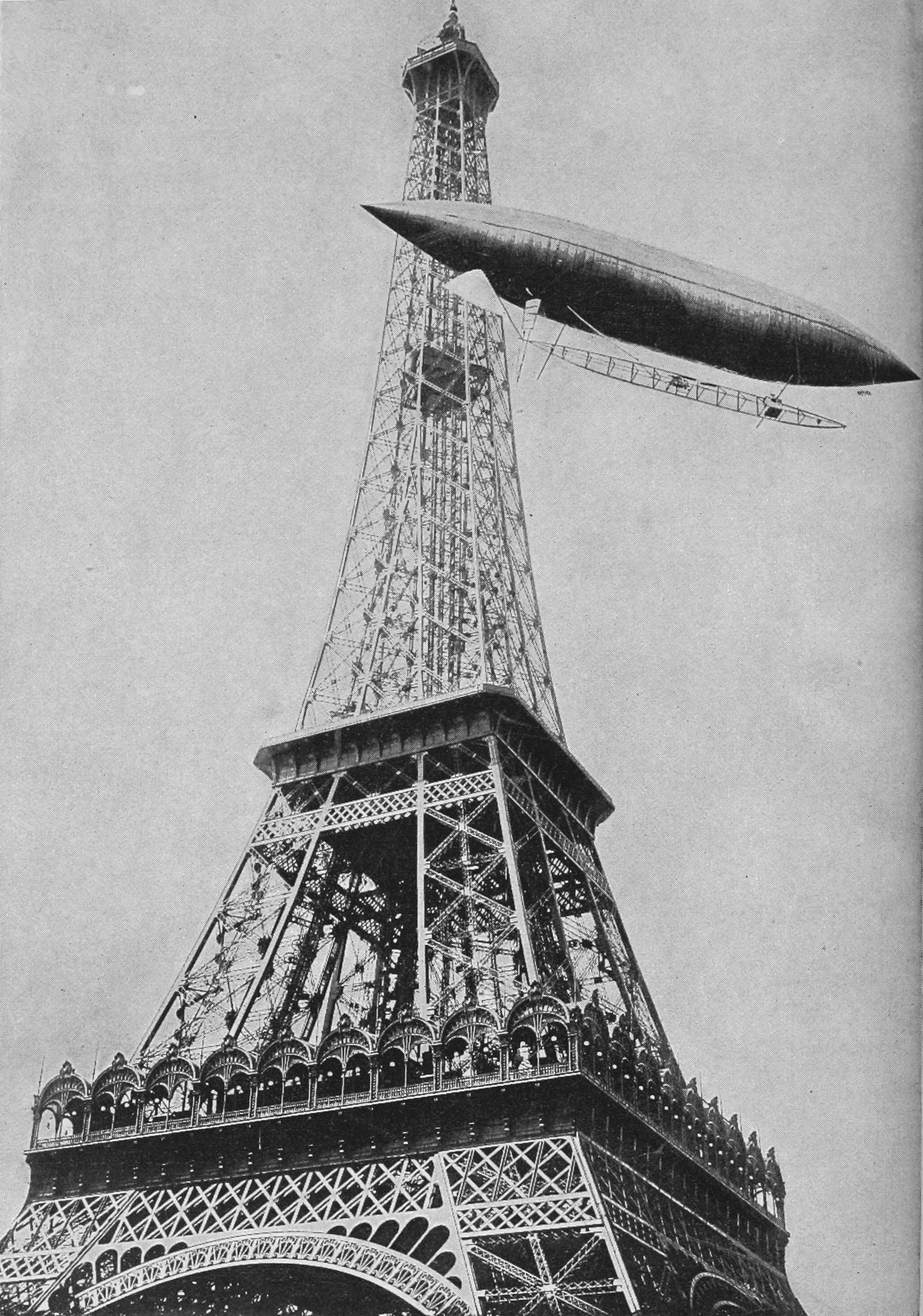 Santo Dumont circles the Eiffel Tower on 13 July 1901 in Dirigible No. 5 Title: Annual report of the Board of Regents of the Smithsonian Institution Year: 1846 (1840s) Authors: Smithsonian Institution. Board of Regents; United States National Museum. Report of the U. S. National Museum; Smithsonian Institution. Report of the Secretary Subjects: Smithsonian Institution; Smithsonian Institution. Archives; Discoveries in science Publisher: Washington : Smithsonian Institution Text Appearing Before Image: Smithsonian Report, 1901.—Lyle. Plate I Text Appearing After Image: The Air Ship "Santos Dumont V" circling the Eiffel Tower. "Bringing together man's two ways of getting into the air, the one from a century just closed, the other from a century just beginning." [The balloon was really no higher than the second platform; but the camera, pointed upward, made it appear to be near the top.]